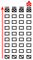 Ian Carter